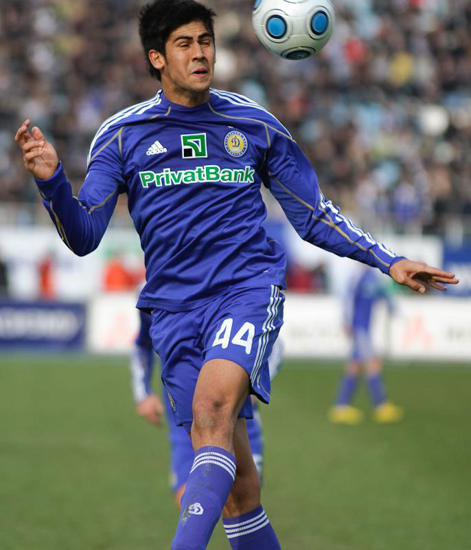 Leandro Almeida da Silva, defender for FC Dynamo Kyiv